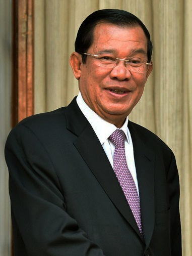 The Prime Minister, Shri Narendra Modi with the Prime Minister of the Kingdom of Cambodia, Mr. Samdech Akka Moha Sena Padei Techo Hun Sen, at Hyderabad House, in New Delhi on January 27, 2018.